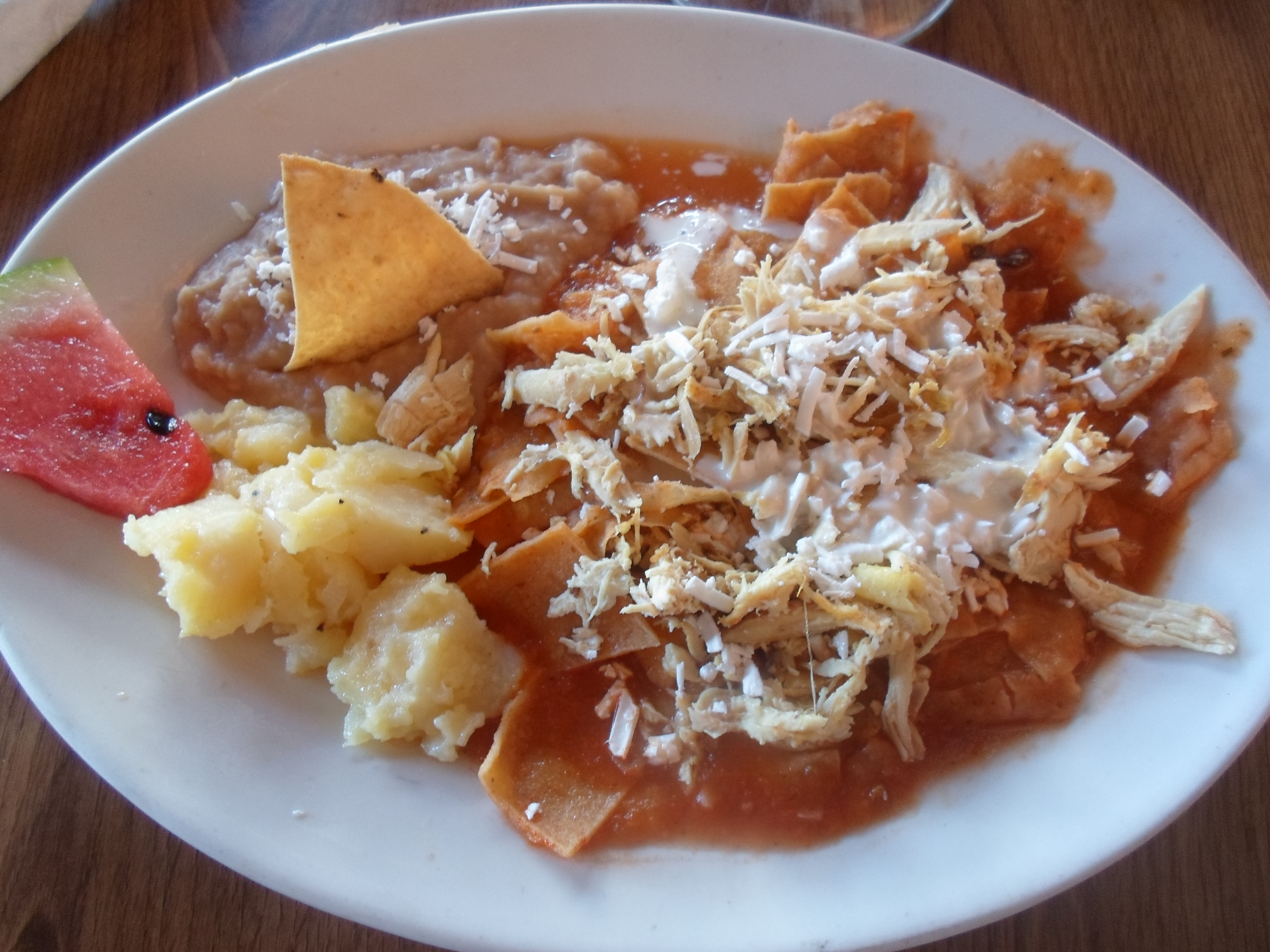 Chilaquiles Rojos